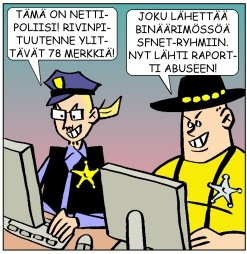 An example panel from the webcomic "Sosiaalisesti rajoittuneet" ("The socially challenged"). Translation of dialogue: "This is the Internet police! Your line length exceeds 78 characters!" "Someone is sending binary junk to the sfnet newsgroups. There goes a report to the abuse address!"